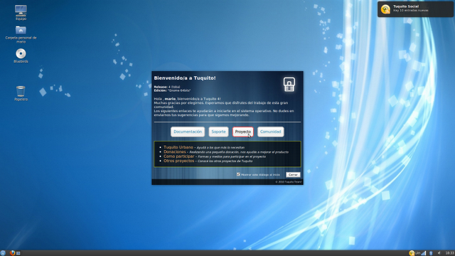 Tuquito 4 Desktop